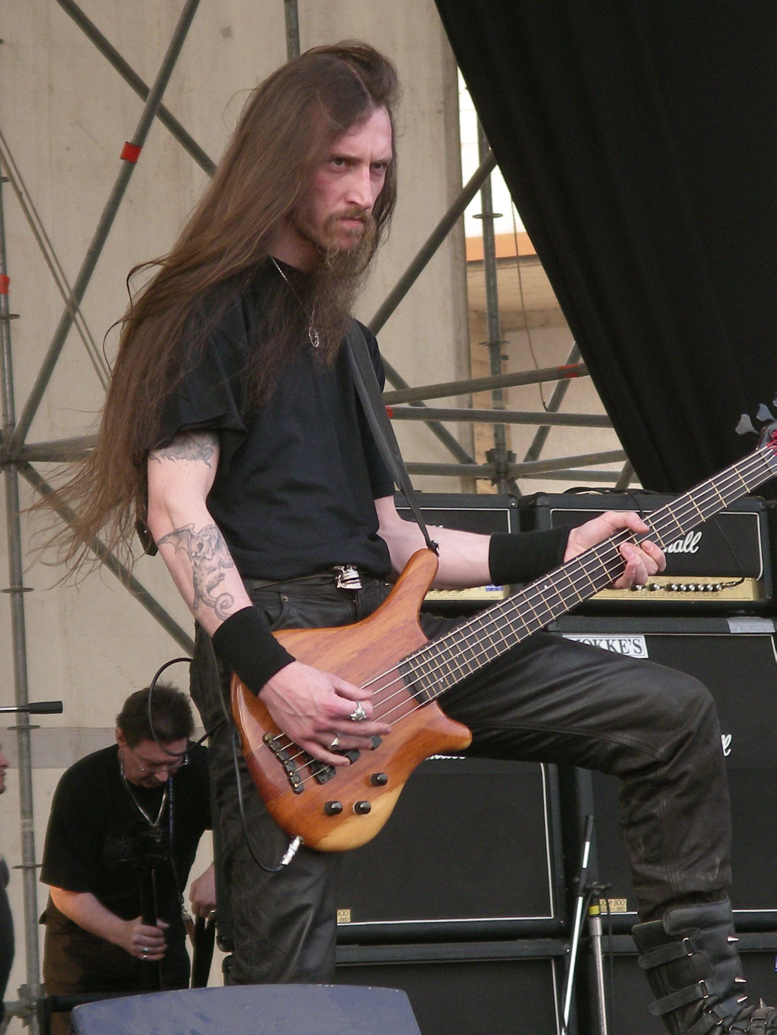 Dissection live in 2005